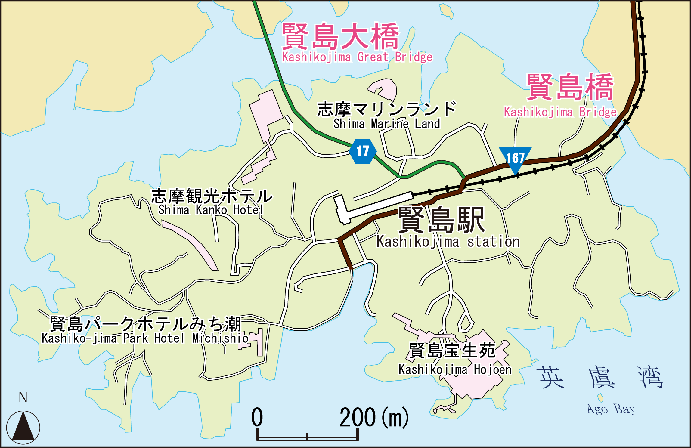 This map shows locations of Kashikojima Bridge and Kashikojima Great Bridge in Kashikojima, Shima, Mie, Japan. The base map is OpenStreetMap. I also referred to a map created by Geospatial Information Authority of Japan. This map may be incomplete, and may contain errors. Don't rely solely on it for navigation.